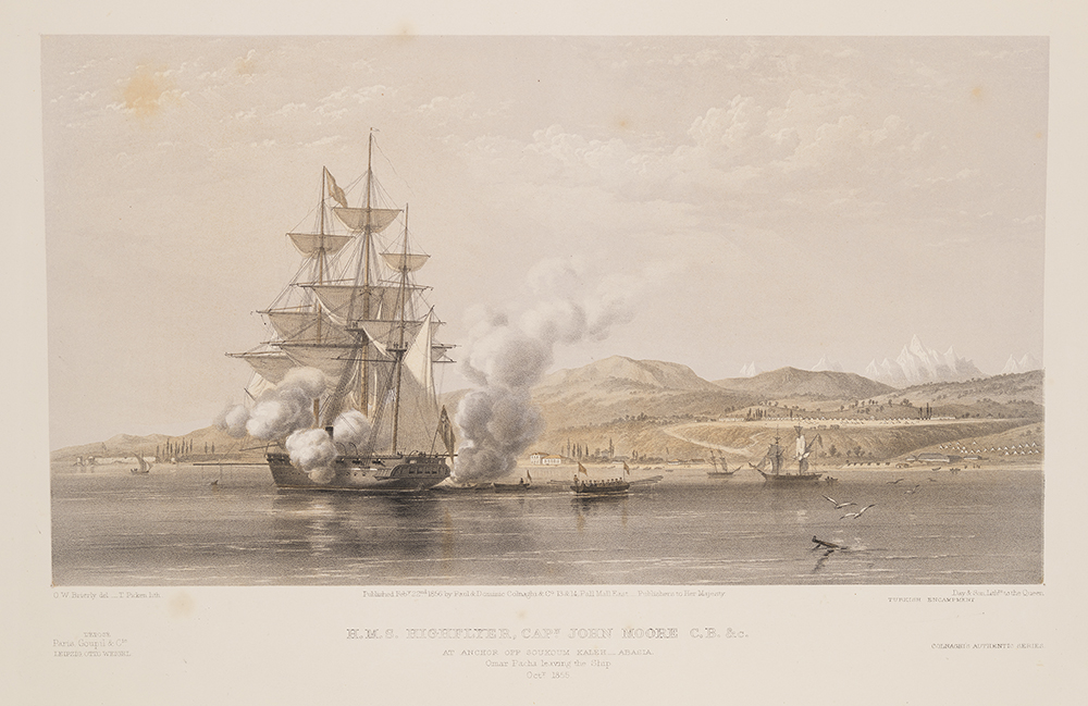 Title: H.M.S. Highflyer, Capn. John Moore C.B. &c. Creator: Brierly, Oswald Walters, Sir, 1817-1894 (delineator); Picken, Thomas, 1815-1870 (lithographer) Date: February 22, 1856 Part of: beautiful scenery and chief places of interest throughout the Crimea from paintings/ Series: Marine & Coast Sketches of the Black Sea/ Place: Sokhumi, Abkhazia, Georgia; Black Sea Description: Full title with caption: H.M.S. Highflyer, Capn. John Moore C.B. &c. at Anchor off Soukoum Kaleh, Abasia. Omar Pacha leaving the Ship. Octr. 1855. Physical Description: 1 print: lithograph, color, part of 1 volume (65 prints); 26 x 39 cm on 40 x 56 cm File: folio_3_ne2524_b6_37_opt.jpg Rights: Please cite DeGolyer Library, Southern Methodist University when using this file. A high-resolution version of this file may be obtained for a fee. For details see the web page. For other information, . For more information and to view the image in high resolution, View the